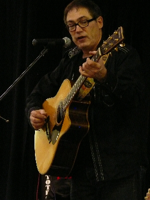 Don Alder - Canadian Fingerstyle guitarist